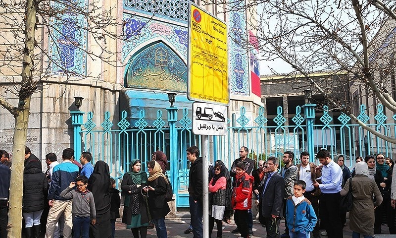 2016 Iranian general elections